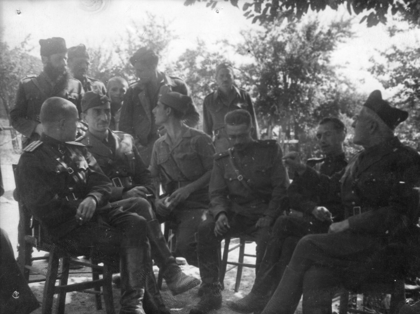 ELAS headquarters in Vermion, with Soviet military mission. 1944 This media file is produced by Wikipedian in Residence in Category:Wikipedian in Residence at DARM in 2016.